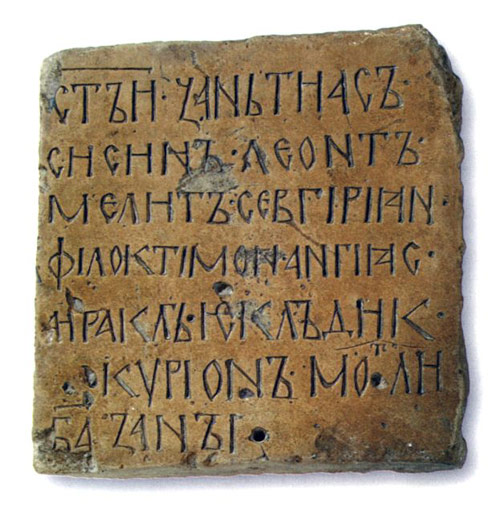 Temnic inscription from X-XI century.